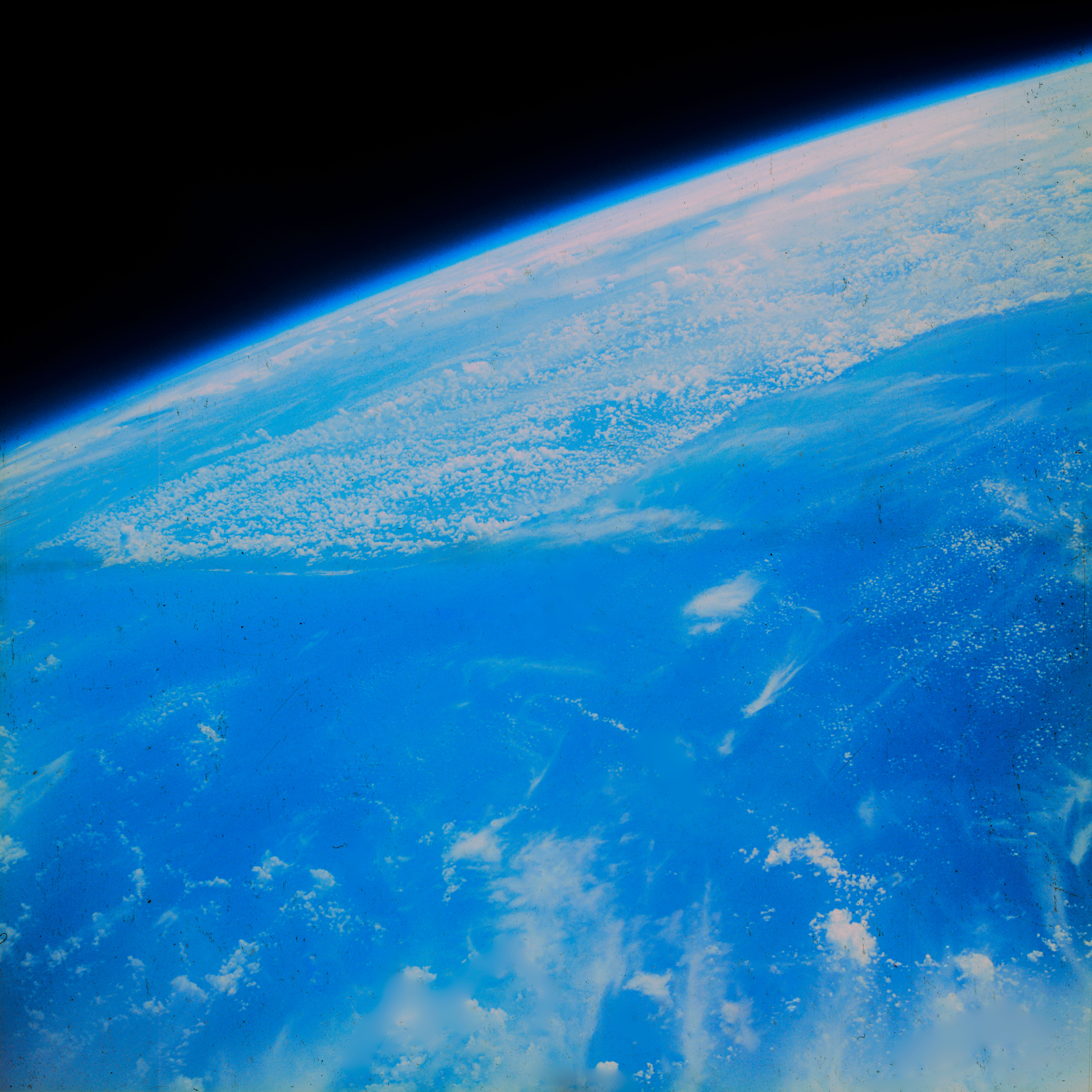 Western horizon over South America taken during the sixth orbit pass of the Mercury-Atlas 8 mission by Astronaut Walter M. Schirra with a hand held camera.